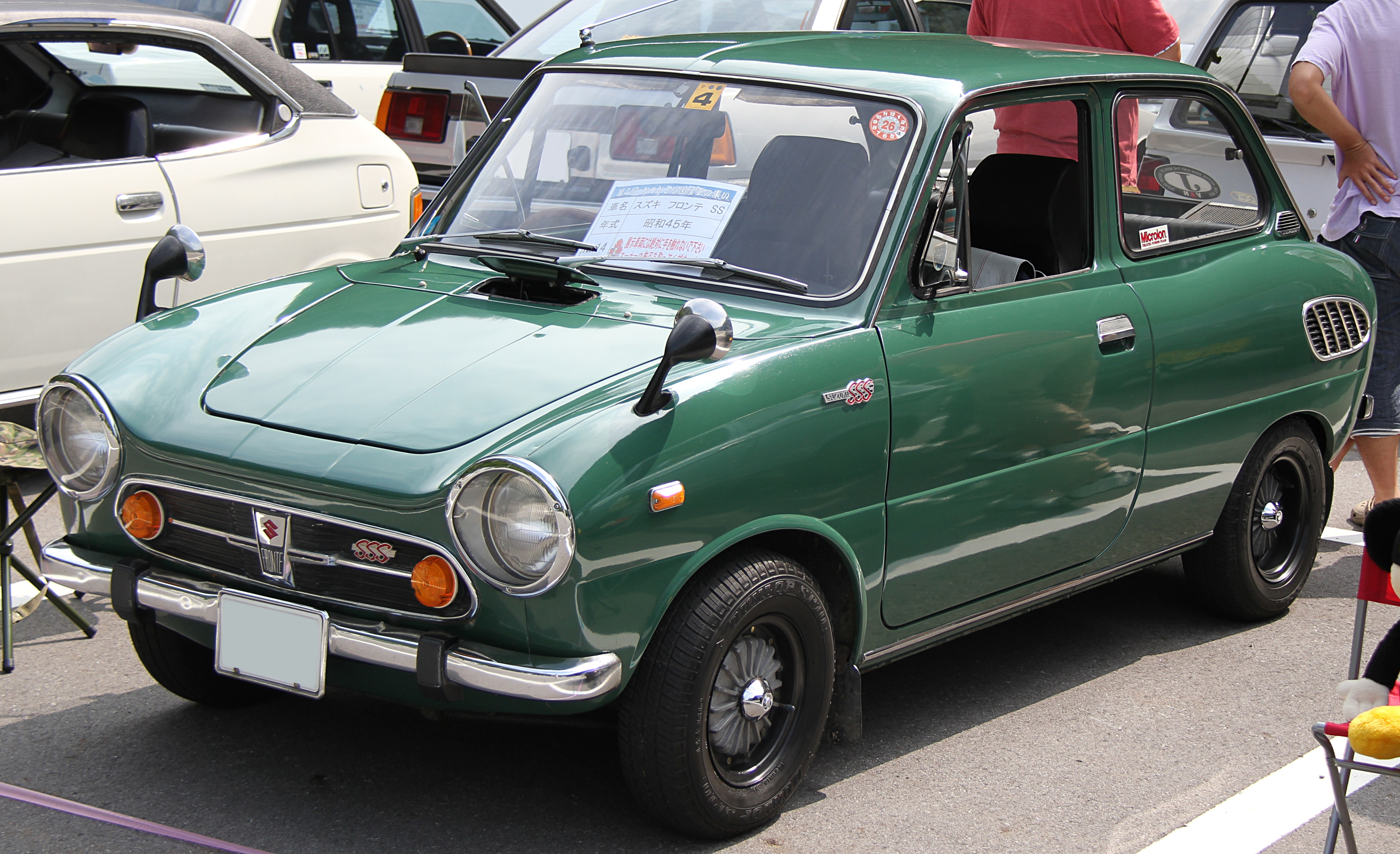 1970 Suzuki Fronte SSS in front of a Daihatsu Fellow Max HT